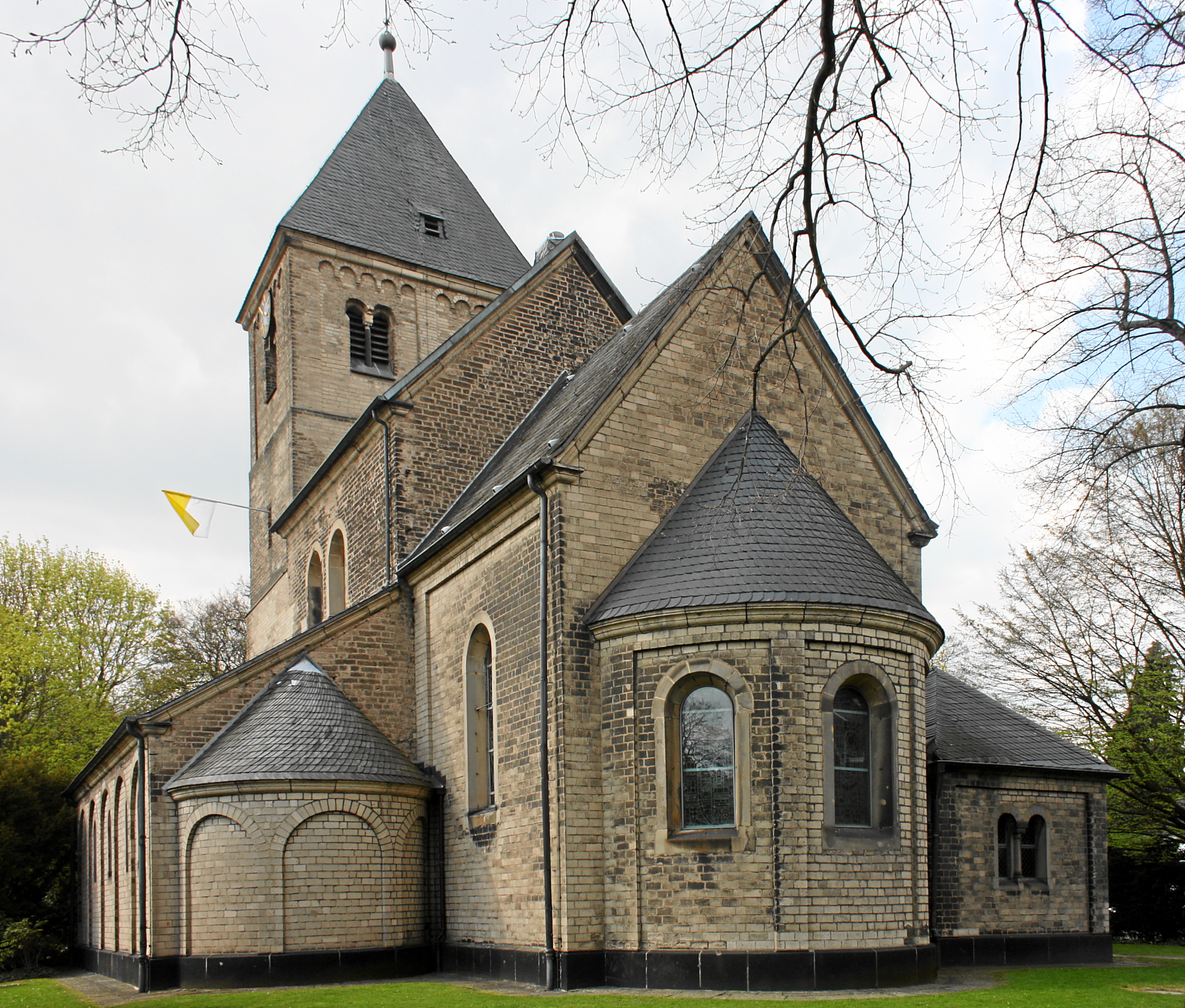 Düsseldorf-Kalkum, Germany. Roman-catholic church St. Lambertus, exterior from East.